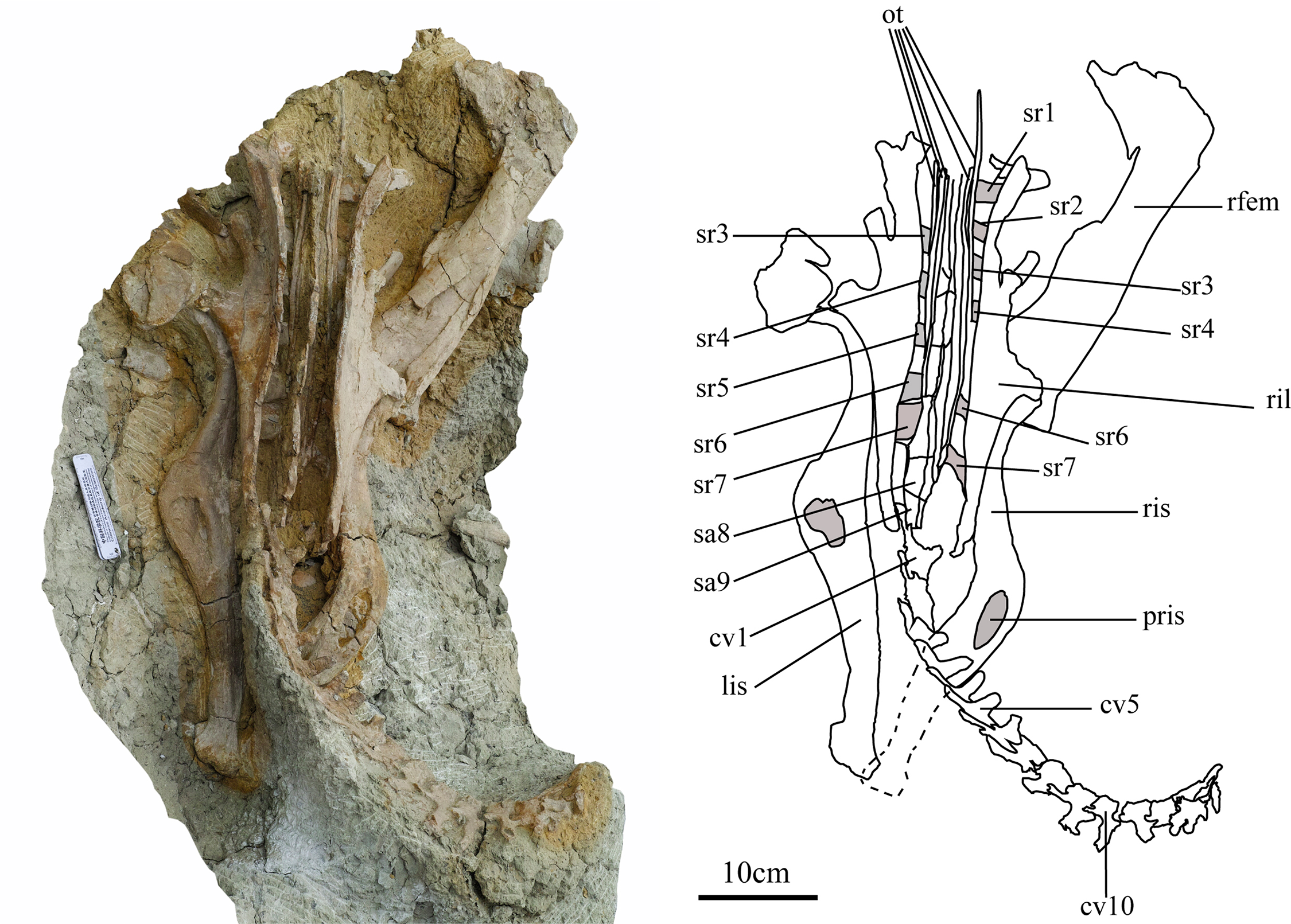 Holotype of Ischioceratops zhuchengensis (ZCDM V0016) in dorsal view. Photograph (left, scale bar equals 8 cm) and drawing (right). Abbreviations: cv, caudal vertebrae; lis, left ischium; ot, ossified tendons; pris, pit on right ischium; rfem, right femur; ril, right ilium; ris, right ischium; sa, sacral; sr, sacral rib.